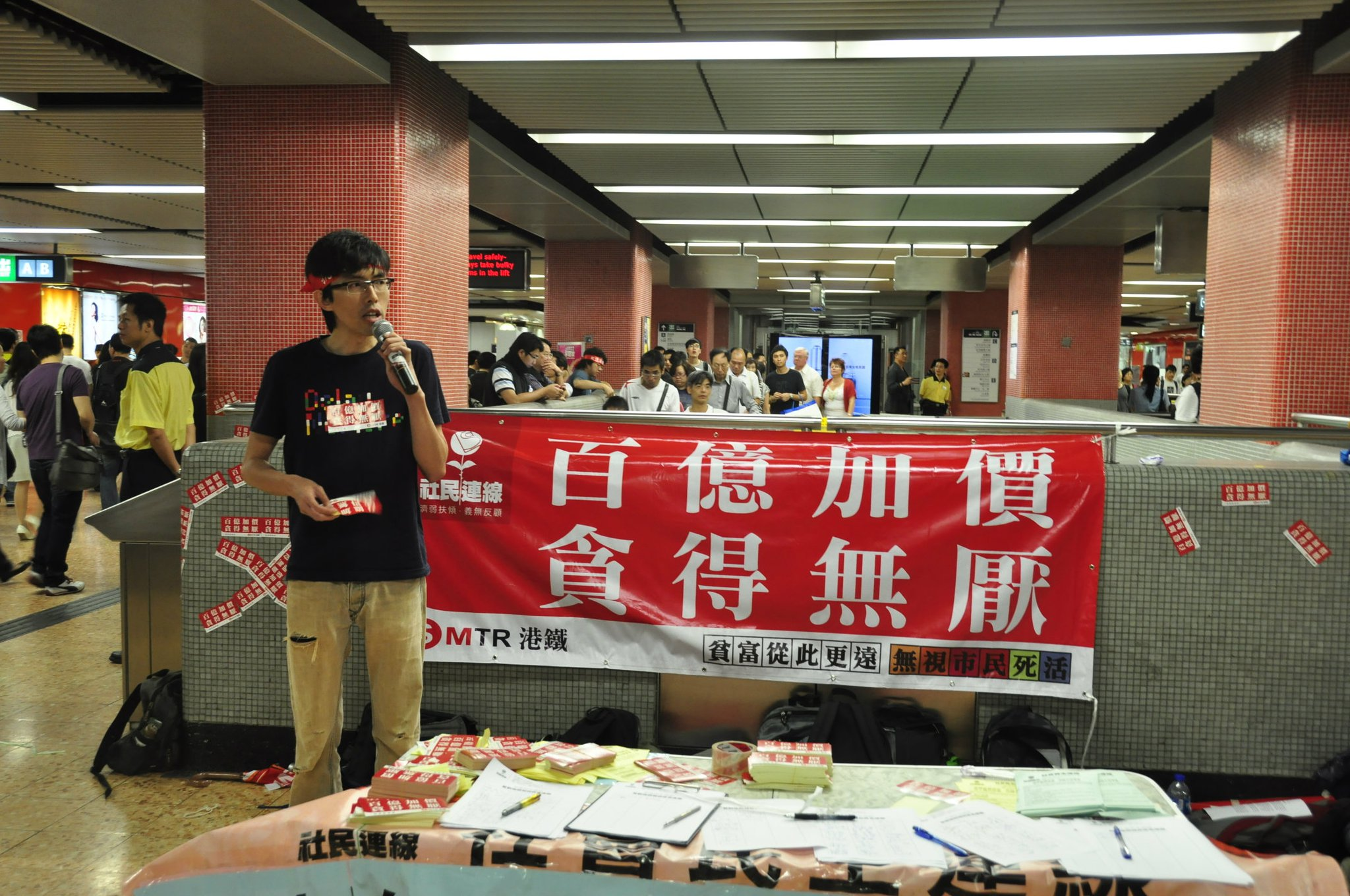 protest AGAINST mtr